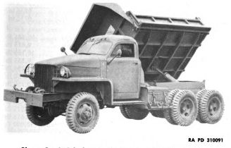 Studebaker US6 Dump U13